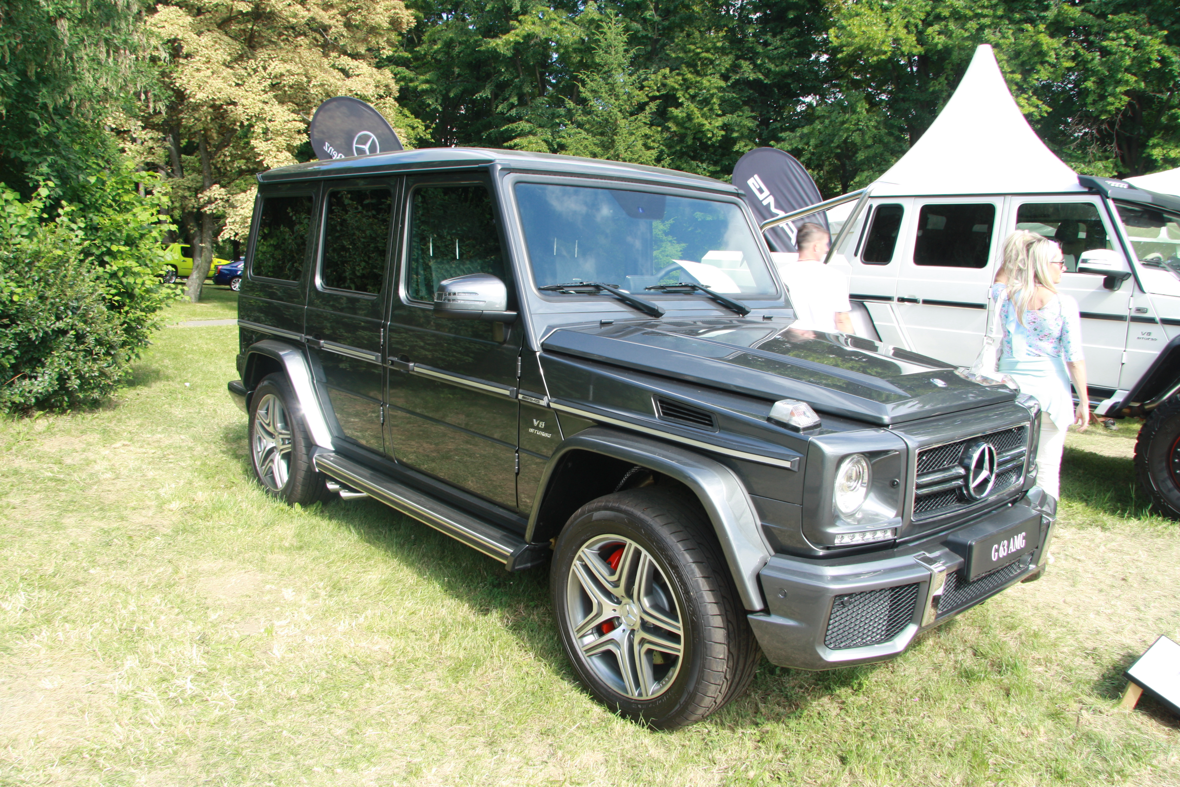 Mercedes-Benz W463 G 63 AMG at Legendy 2014.